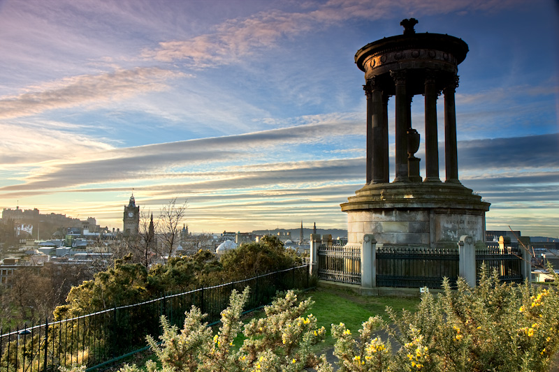 Photograph of the Dugald Stewart monument on Calton Hill in Edinburgh, with the central Edinburgh skyline in the background.